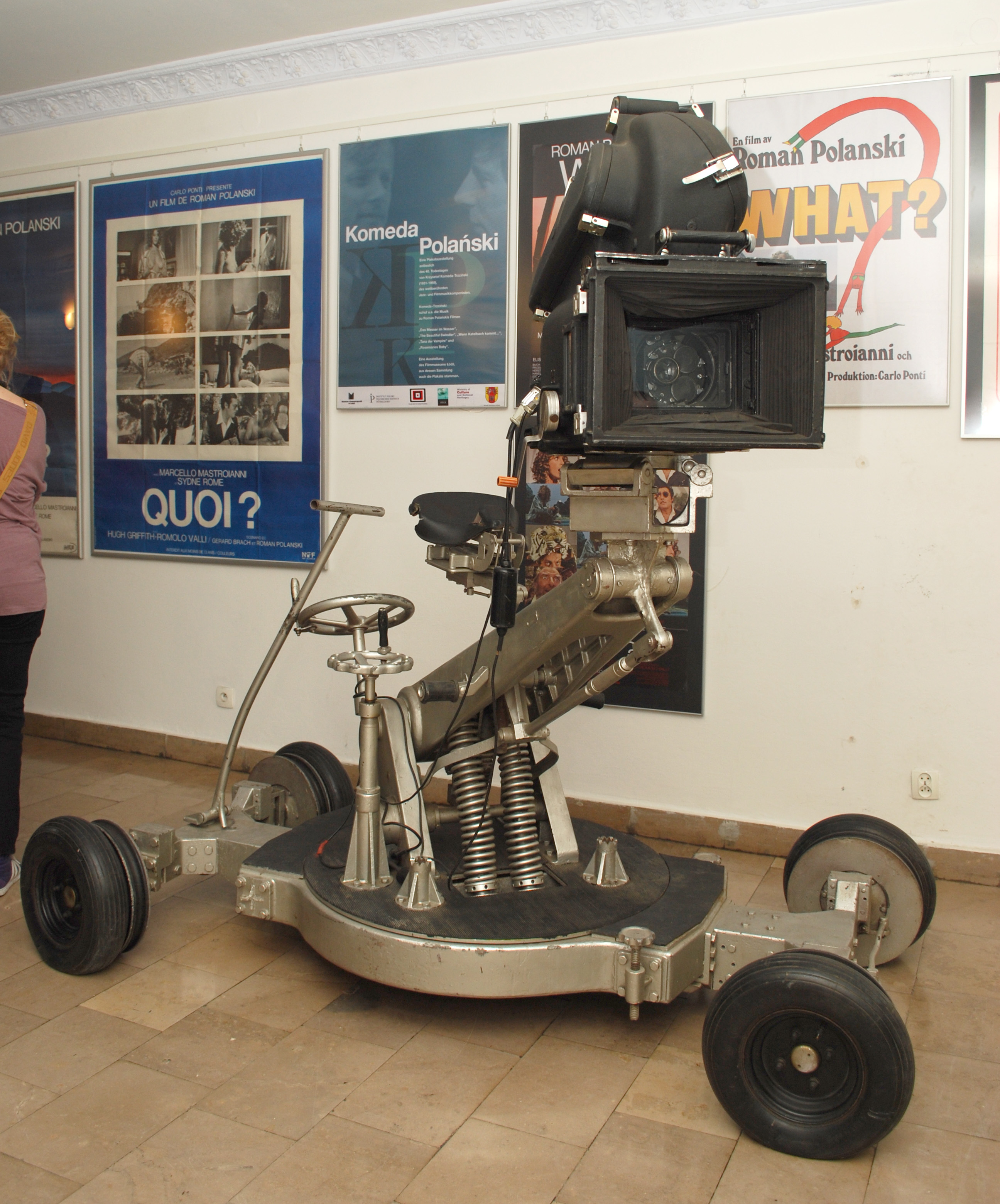 This picture was taken during the photographic wikiworkshop organized by the Association of Wikimedia Poland. All pictures of the workshop you can see in the category wikiwarsztaty 2010. Kamera używana przez Jerzego Hoffmana przy kręceniu Ogniem i Mieczem